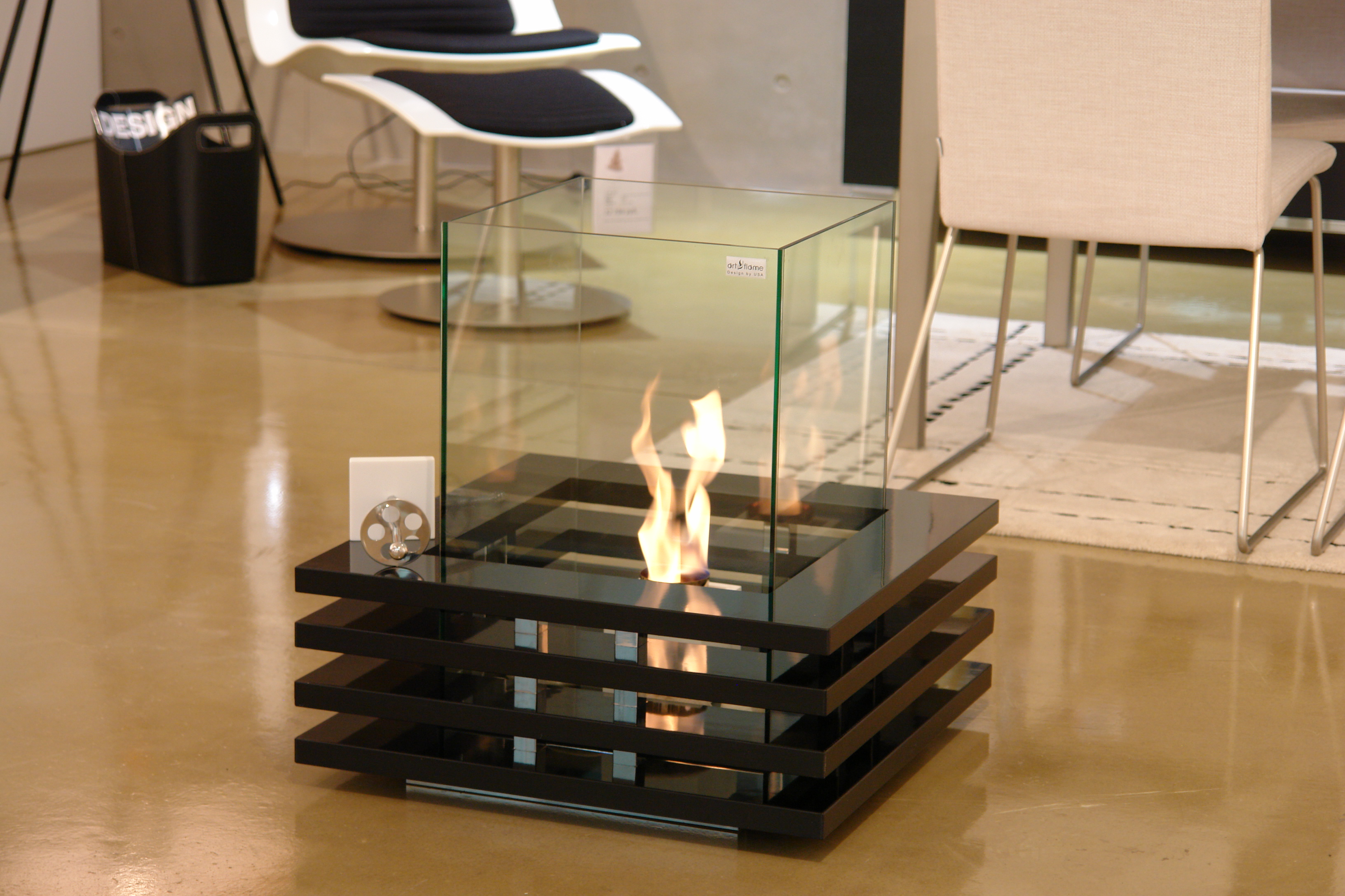 Bio fireplace, Art Flame (